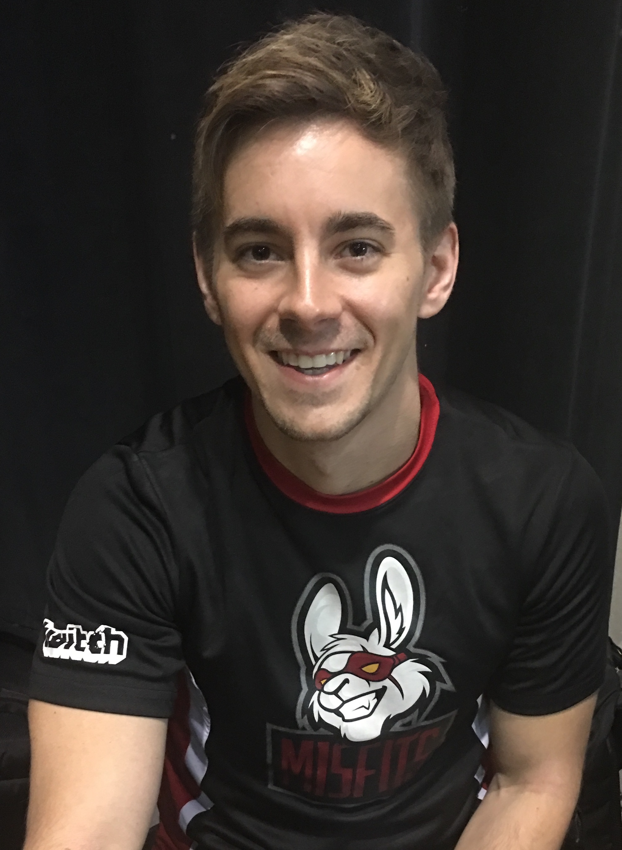 Sean Gares (Seang@res), in game leader for Misfits's Counter-Strike: Global Offensive team.